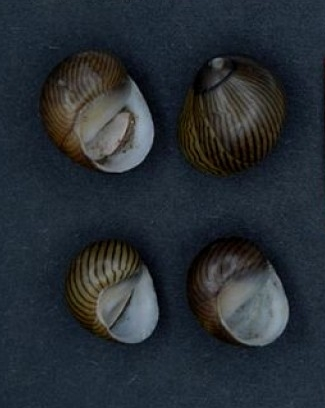 Four seashells of Neritina zebra (Bruguière, 1792) from the collection of Naturalis Biodiversity Center. Specimens from Amazon river.